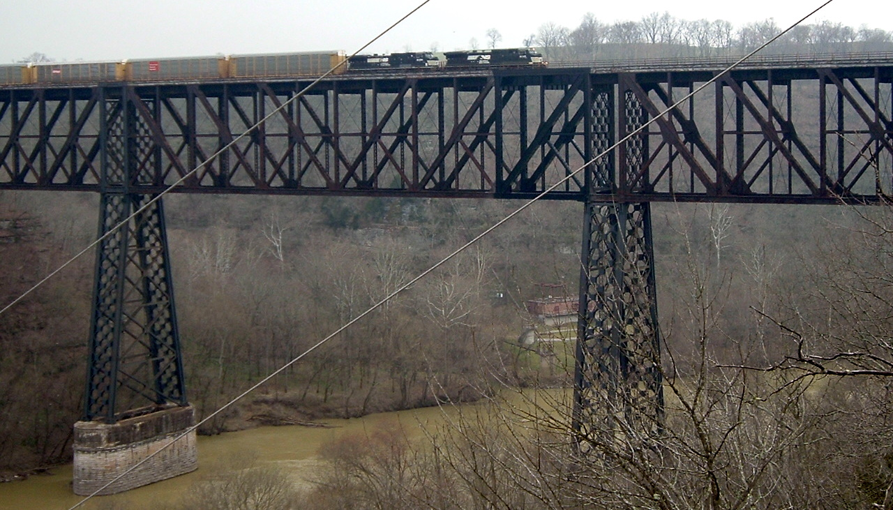 Picture of High Bridge. Taken by uploader, all rights released.